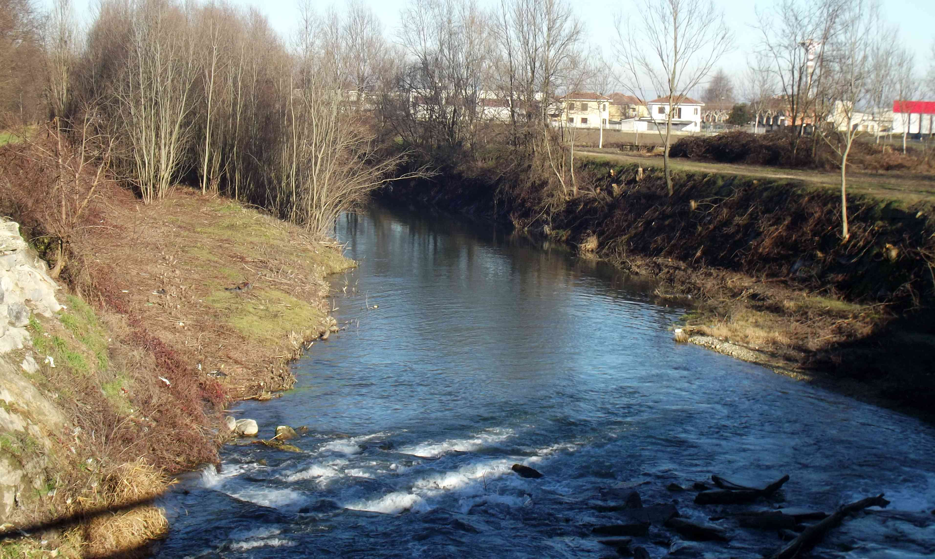 The Varaita from the former national road n. SS 663 bridge in Polonghera (CN, Italy)